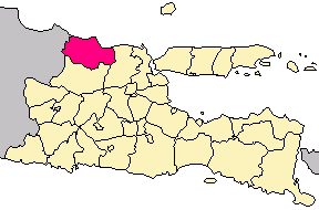 Tuban county in East Java province, Indonesia